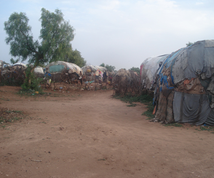 Kebribeyah refugee camp has existed for nineteen years. Each family lives in these small houses, called turkuls, covered with cloth. Many have a separate kitchen. For the children born here, Kebribeyah is the only home they have ever known.